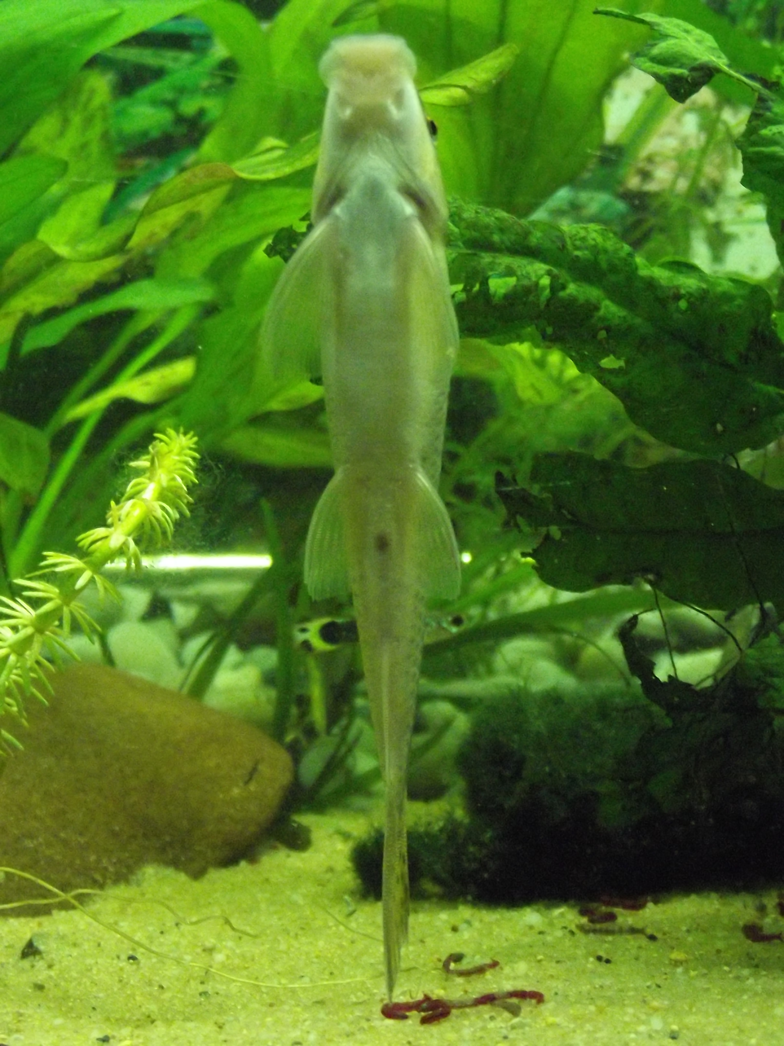 Gyrinocheilus aymonieri (view from the abdominal)